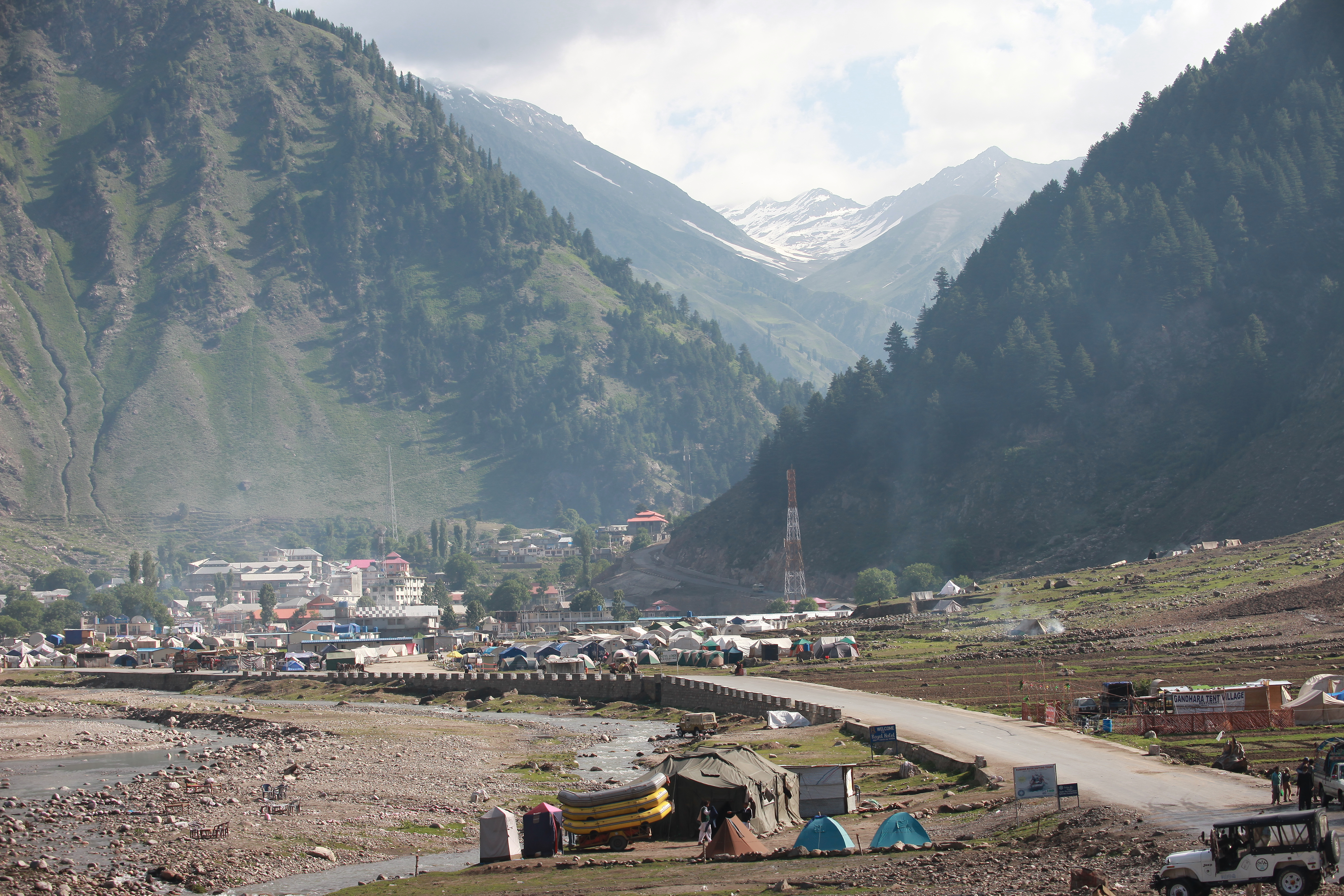 This is the Naran valley just before entering the town of Naran (background) from Balakot side.